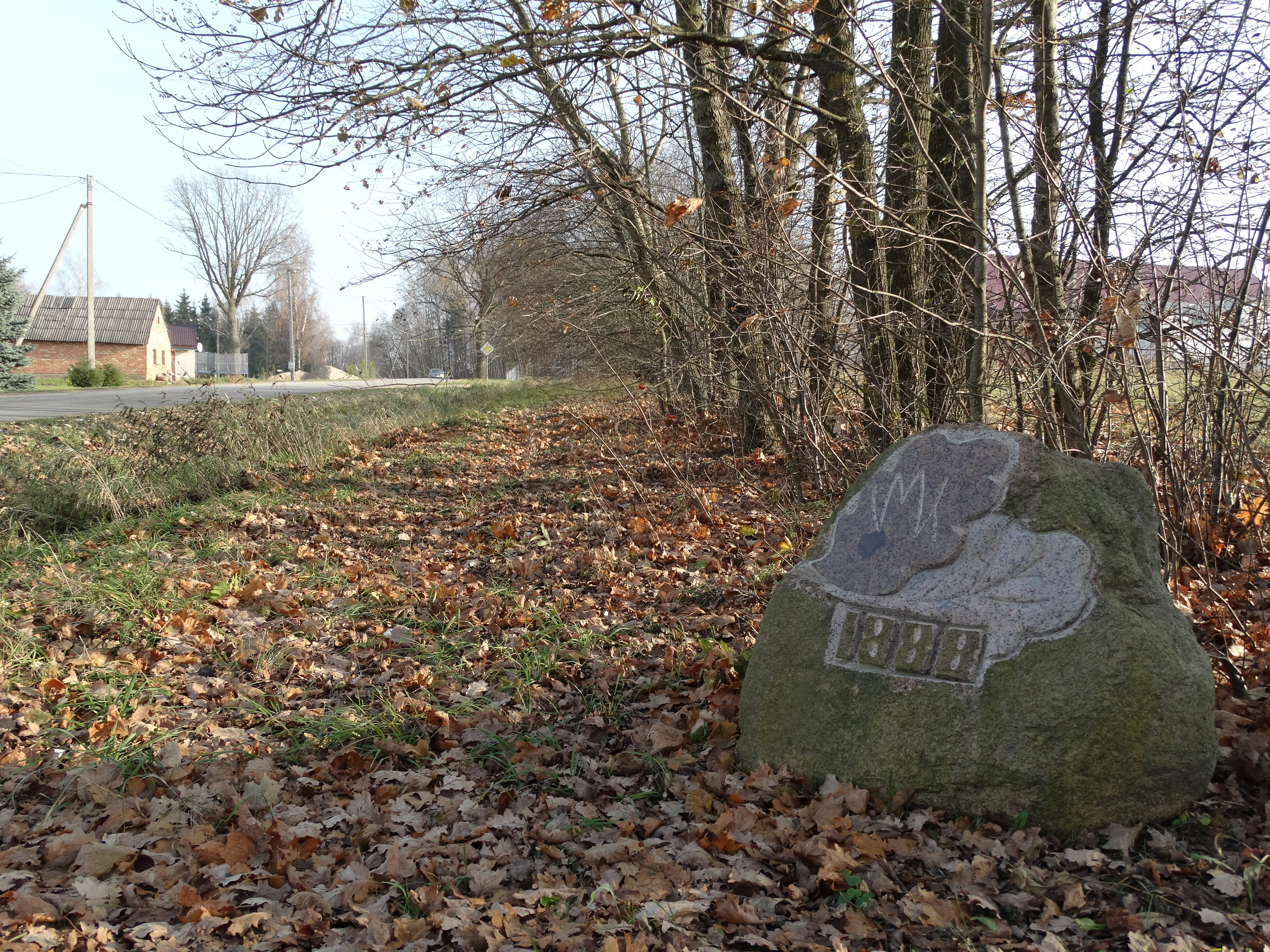 Kiemeliai, Pasvalys District, Lithuania